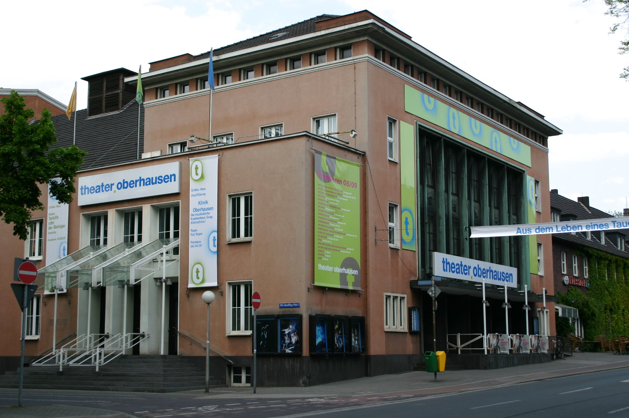 Municipal theatre of Oberhausen (Germany)